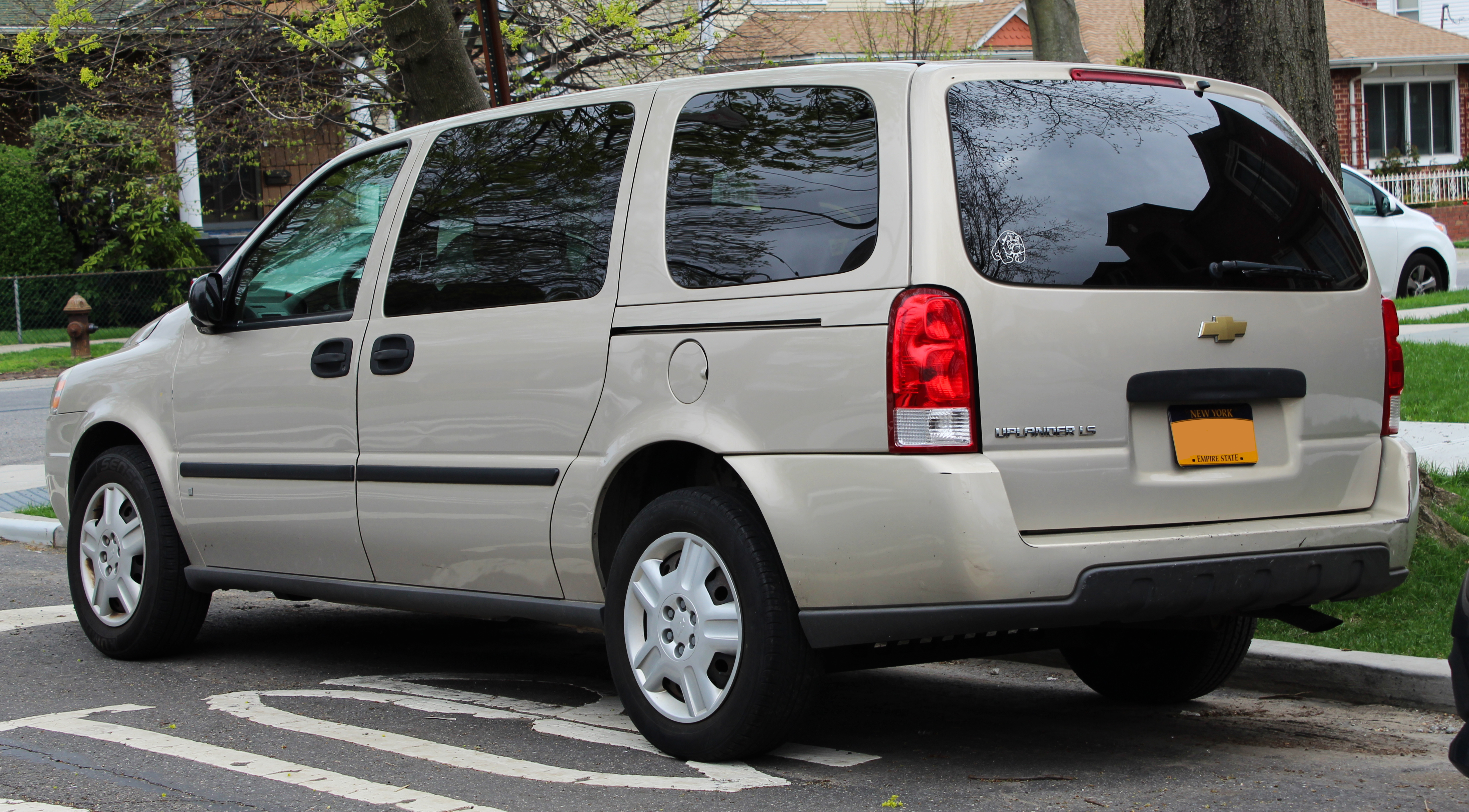 A 2007 Chevrolet Uplander photographed in Flushing, Queens, New York, USA